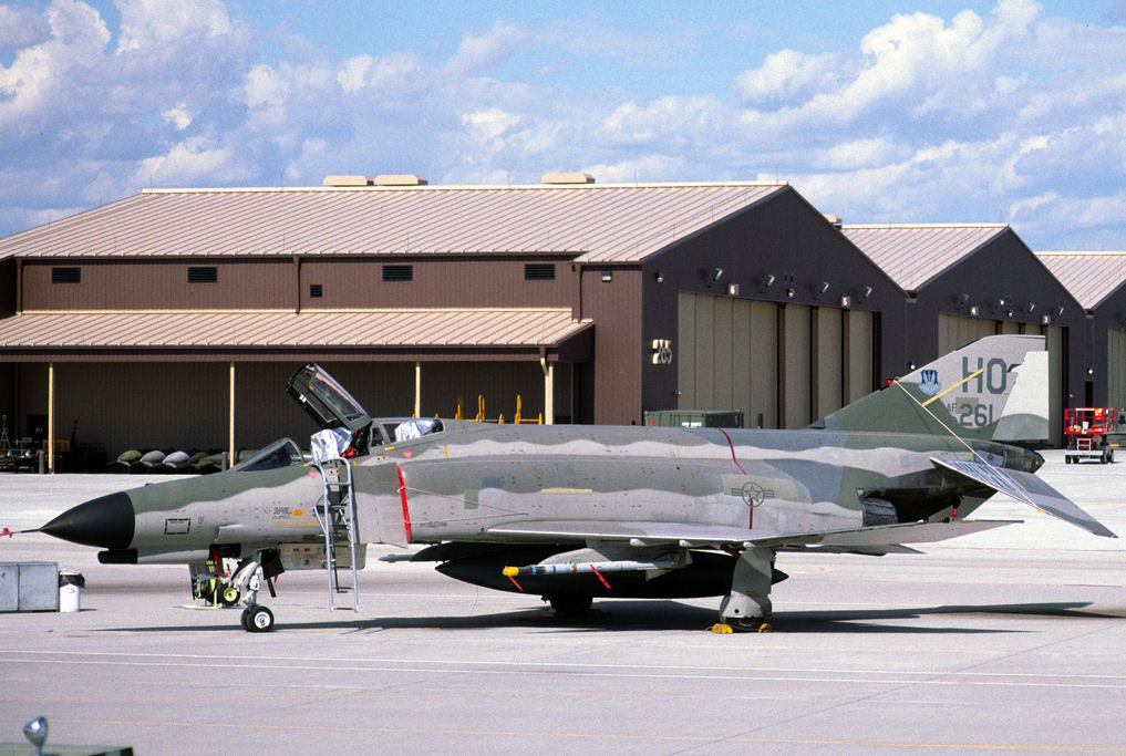 20th Fighter Squadron Luftwaffe McDonnell Douglas F-4F-59-MC Phantom 72-1261, Holloman AFB, New Mexico